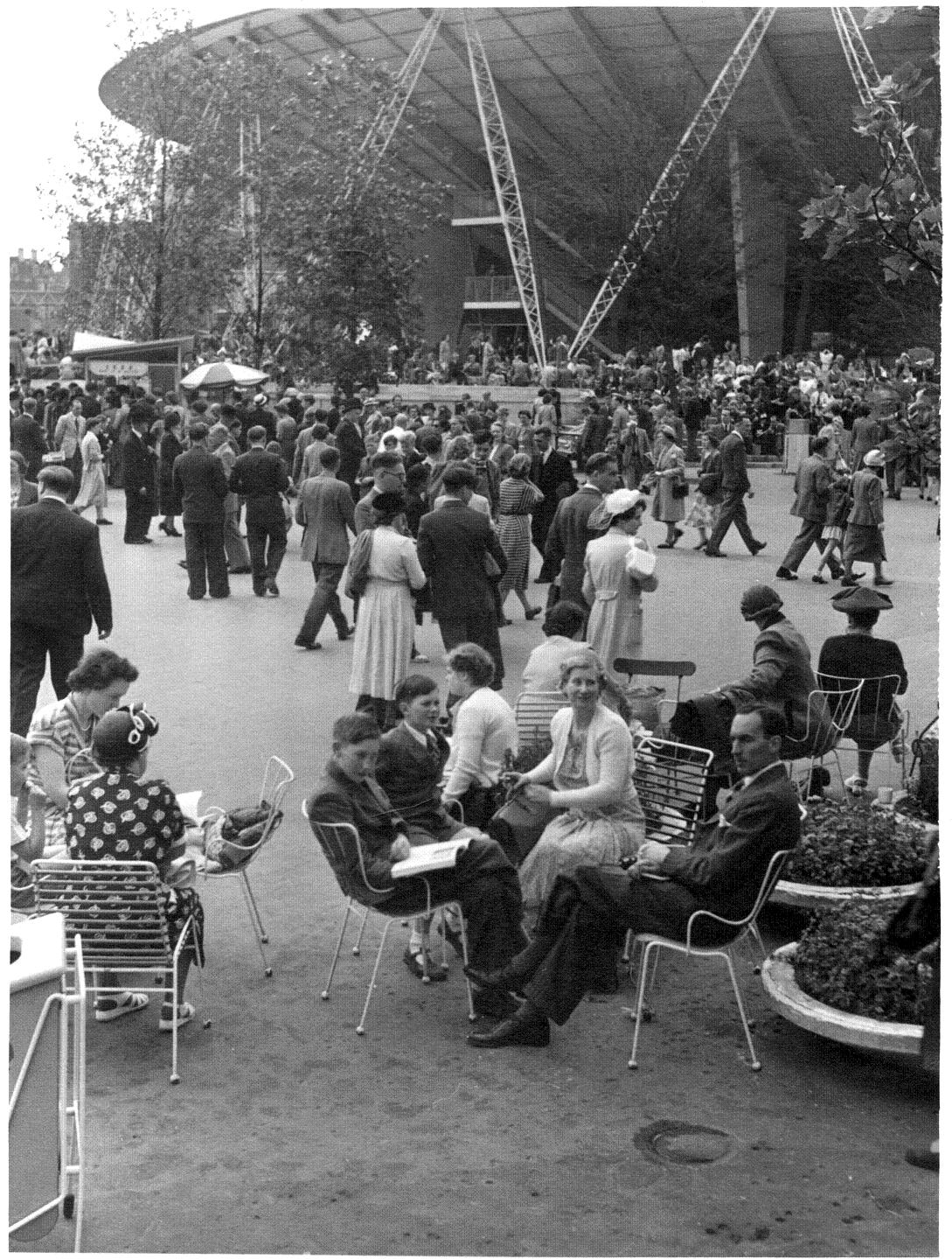 Visitors to the Festival of Britain in front of the Dome of Discovery. (Southbank Centre Archive/Mrs Holland)